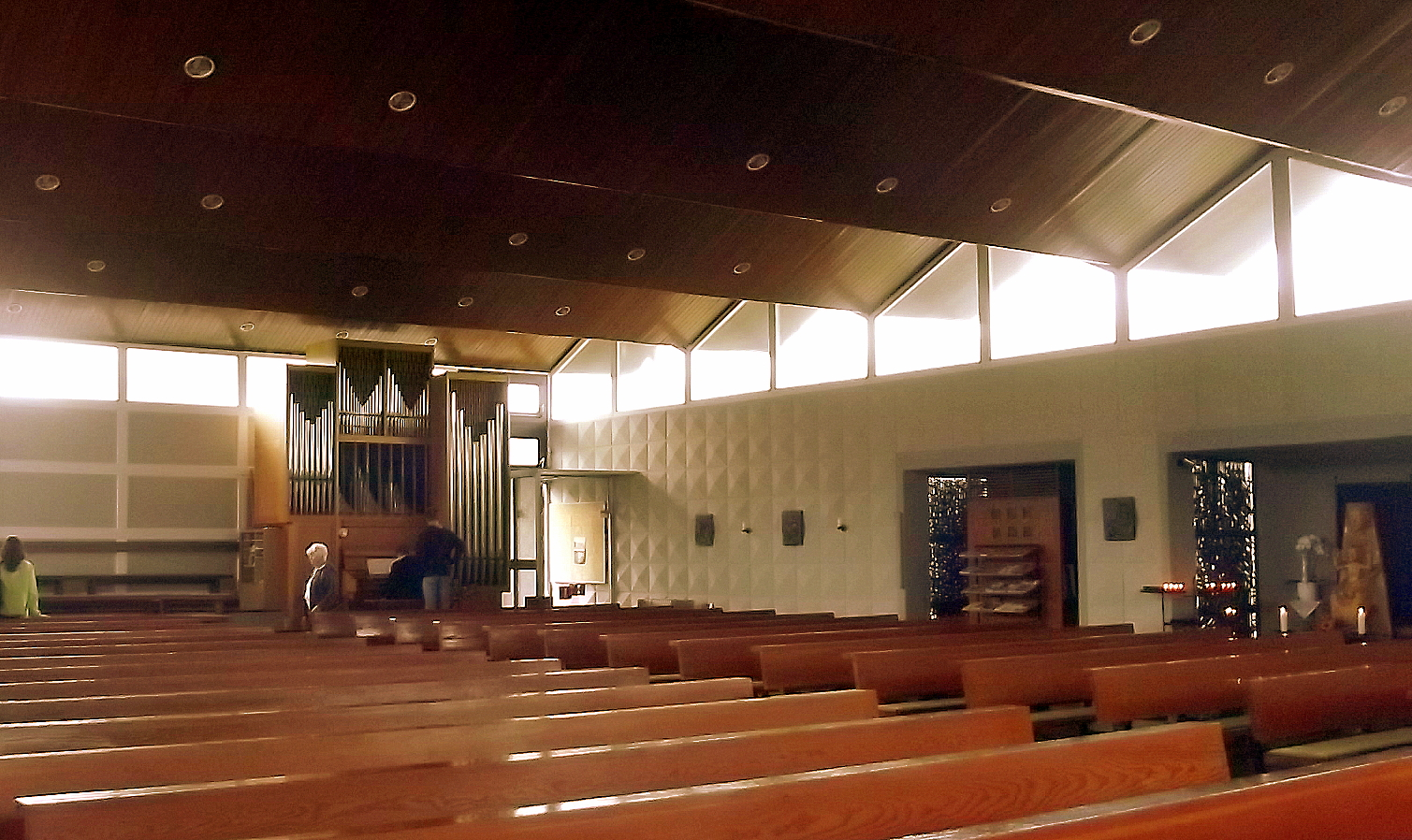 Interior of the roman catholic Maria Trost church in Dillingen, Saarland, Germany